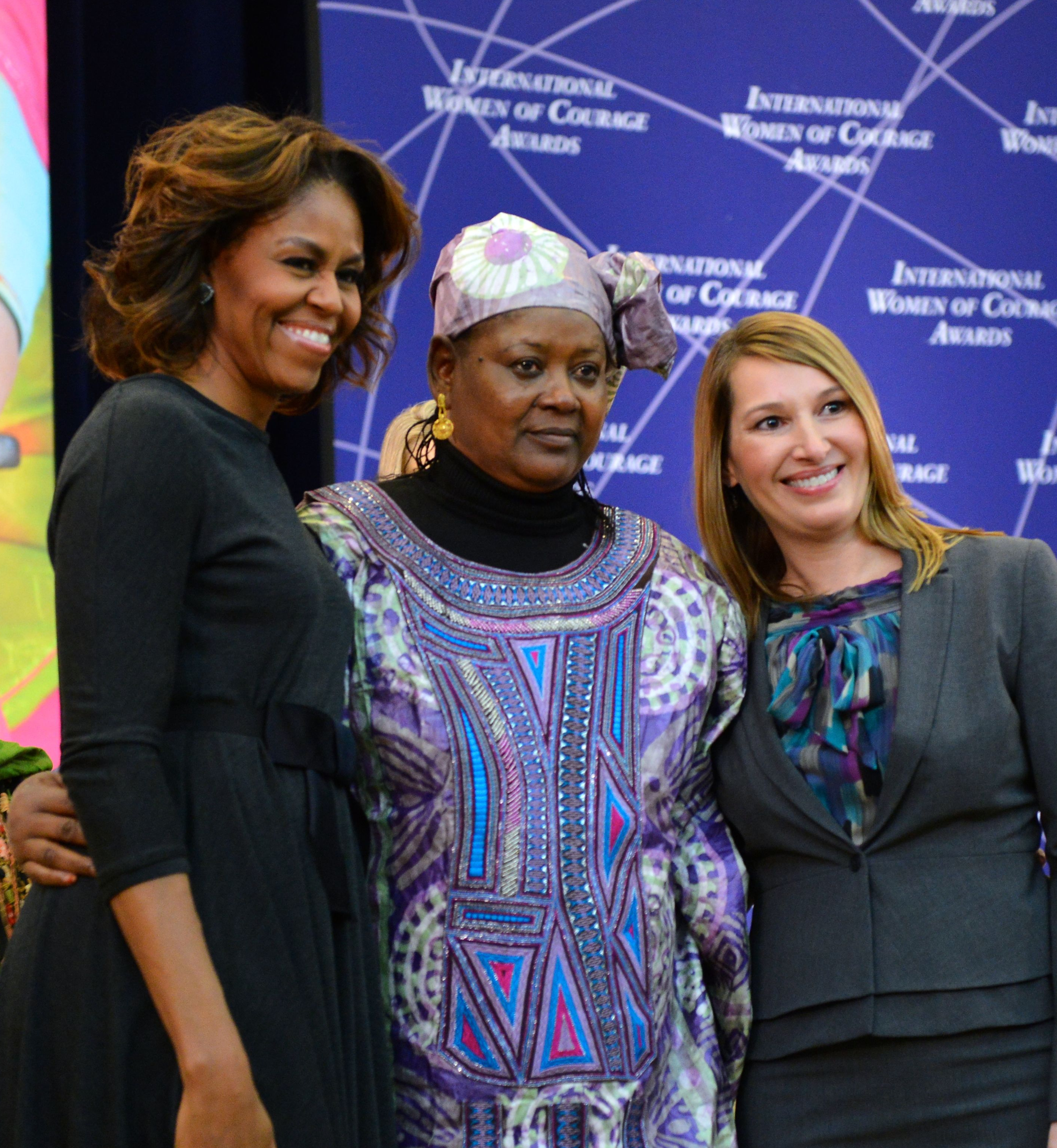 "Deputy Secretary Higginbottom and First Lady Michelle Obama recognized extraordinary women from around the globe with the Secretary of State’s International Women of Courage Award at a ceremony that took place on Tuesday, March 4, 2014, 11:30 a.m. at the Department of State."